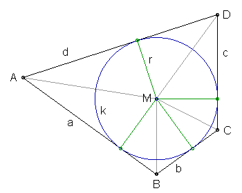 Representation of a tangential quadrilateral.